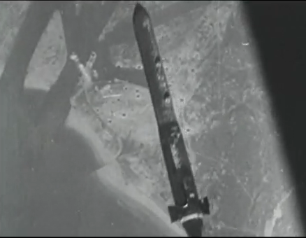 Still from a World War 2 movie produced by the US Army Pictorial Service. Showing the dropping of a Disney bomb over its target.